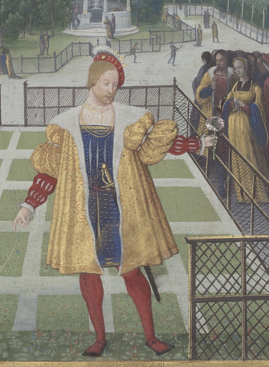 Henri d'Albret, King of Navarre (1517-1555), Folio 2 of Initiatoire instruction en la religion chrestienne pour les enffans (Beginning Instruction in the Christian Religion for Children), attributed to Wurttemburg reformer Johann Brenz (b. 1499-d. 1570), commissioned for Henri's wife Marguerite de Navarre, Library of the Arsenal, MS 5096